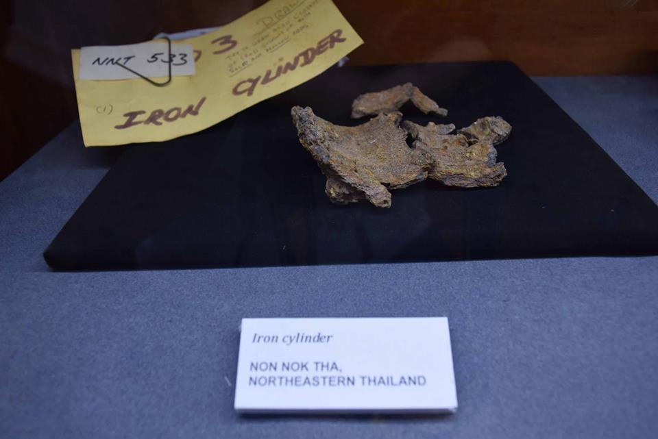 An iron cylinder from Non Nok Tha, Northeastern Thailand